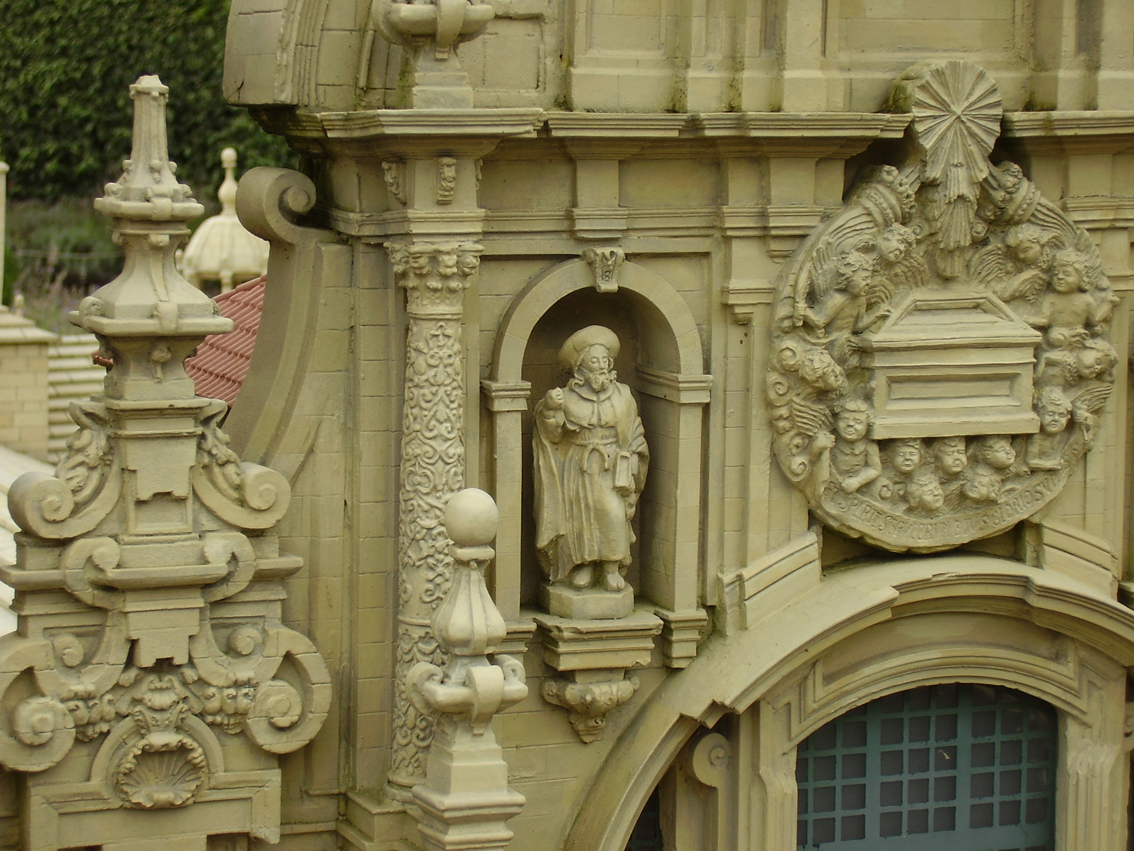 Model in Mini-Europe